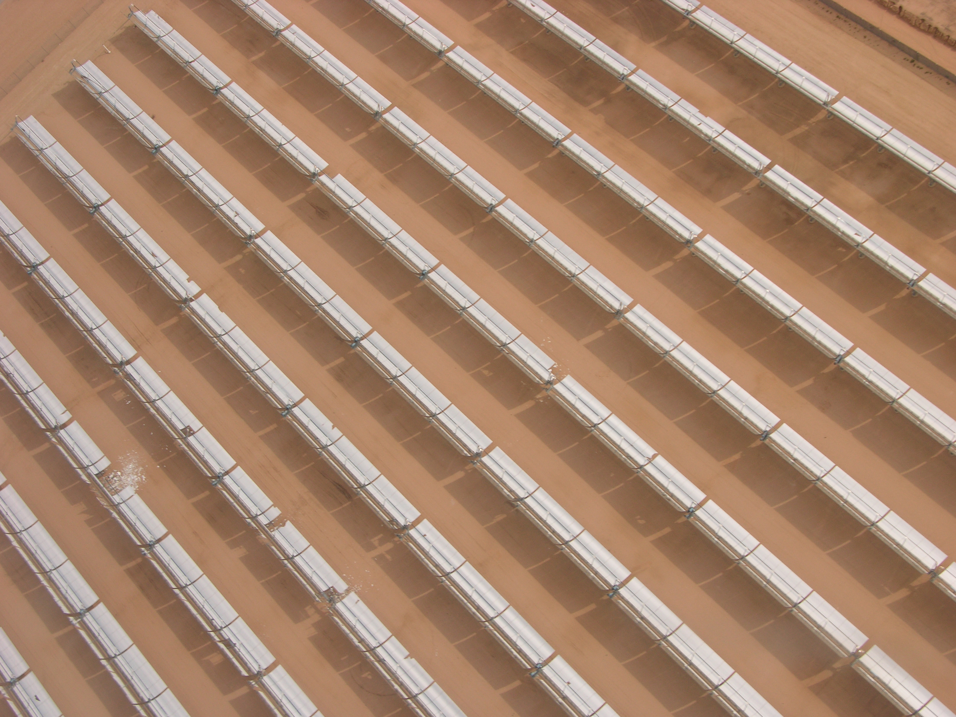 Solar Energy Generating Systems solar power plant at Kramer Junction, California